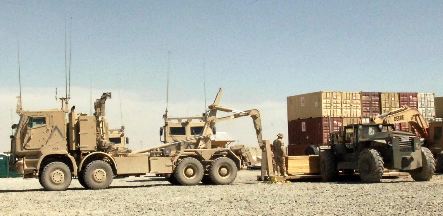 Armoured Heavy Support Vehicle System of the Canadian Land Forces in Afghanistan.